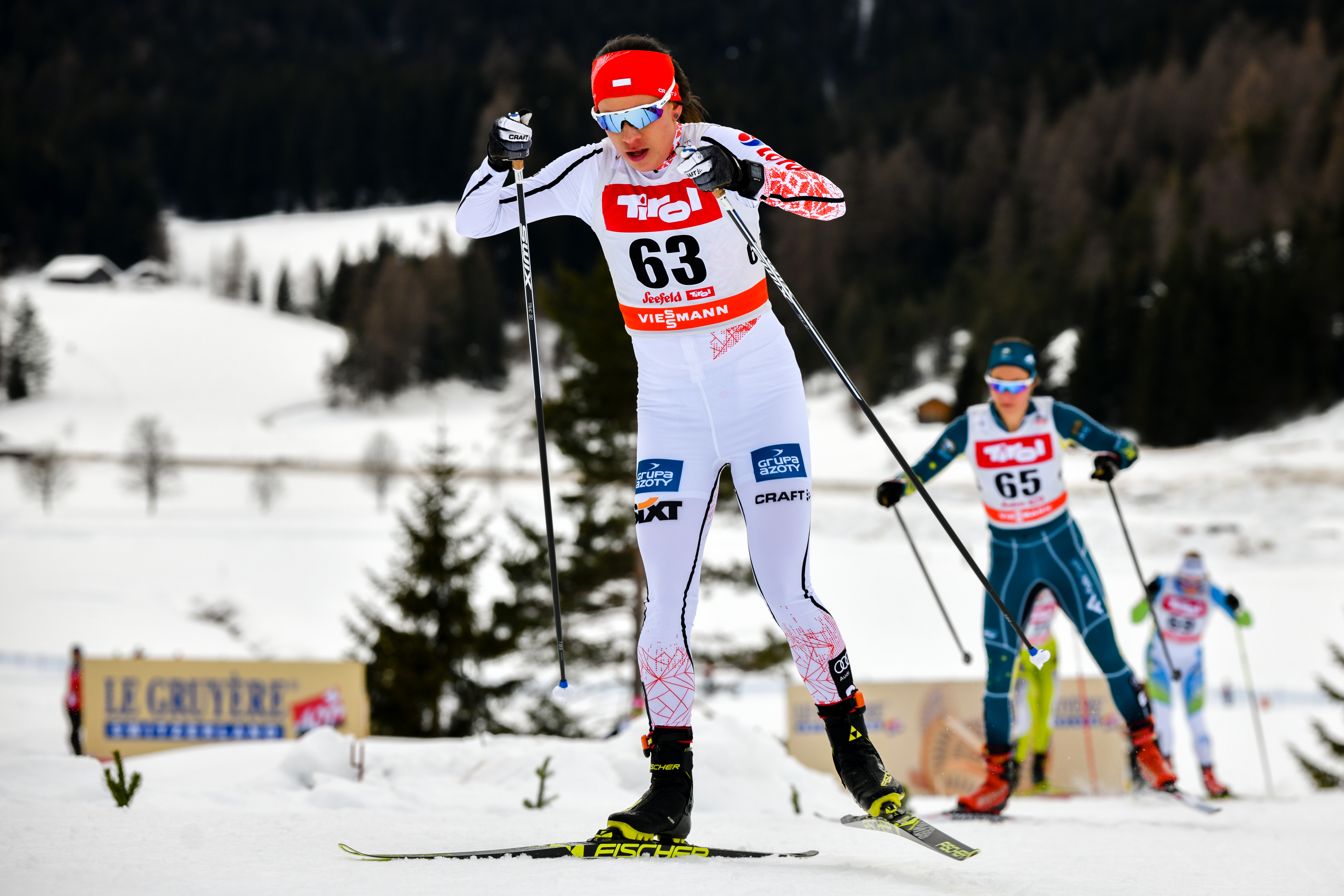 Seefeld-Triple 2018, third day January 28th. Picture shows GALEWICZ Martyna (POL).